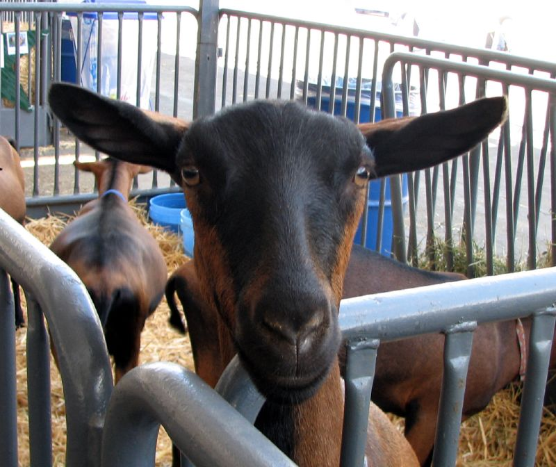 Closeup of the typical coloration of an Oberhasli goat's face.